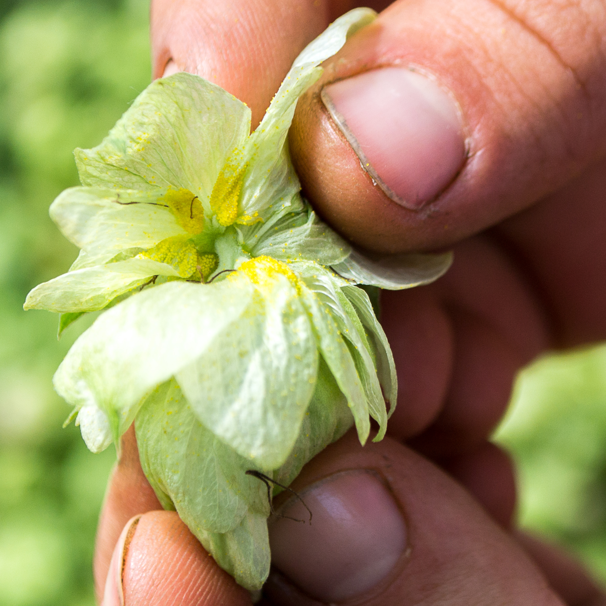 Yellow lupulin glands inside a mature hop cone